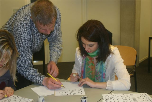 Peter is in his free time calligrahie teacher his give lessons to women.